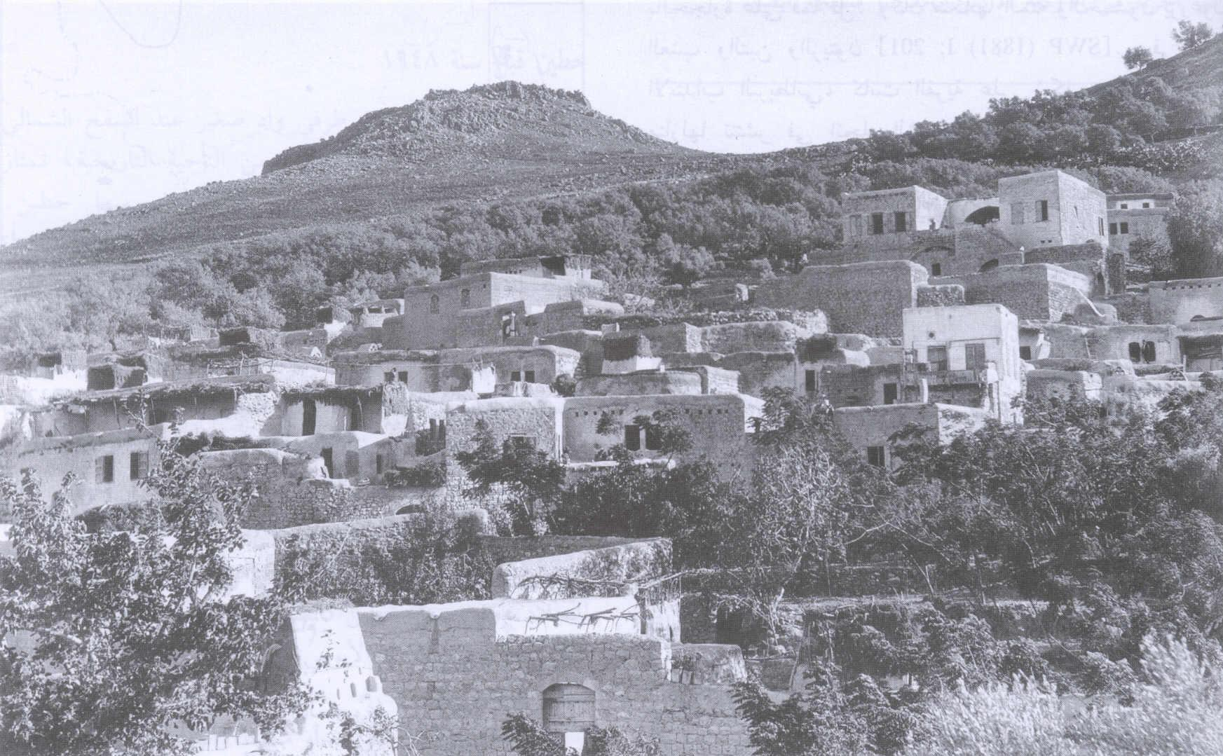 General view of Hittin